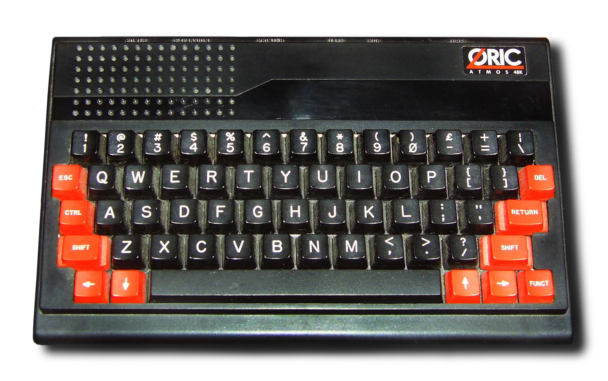 Oric Atmos home computer, the successor to the Oric 1